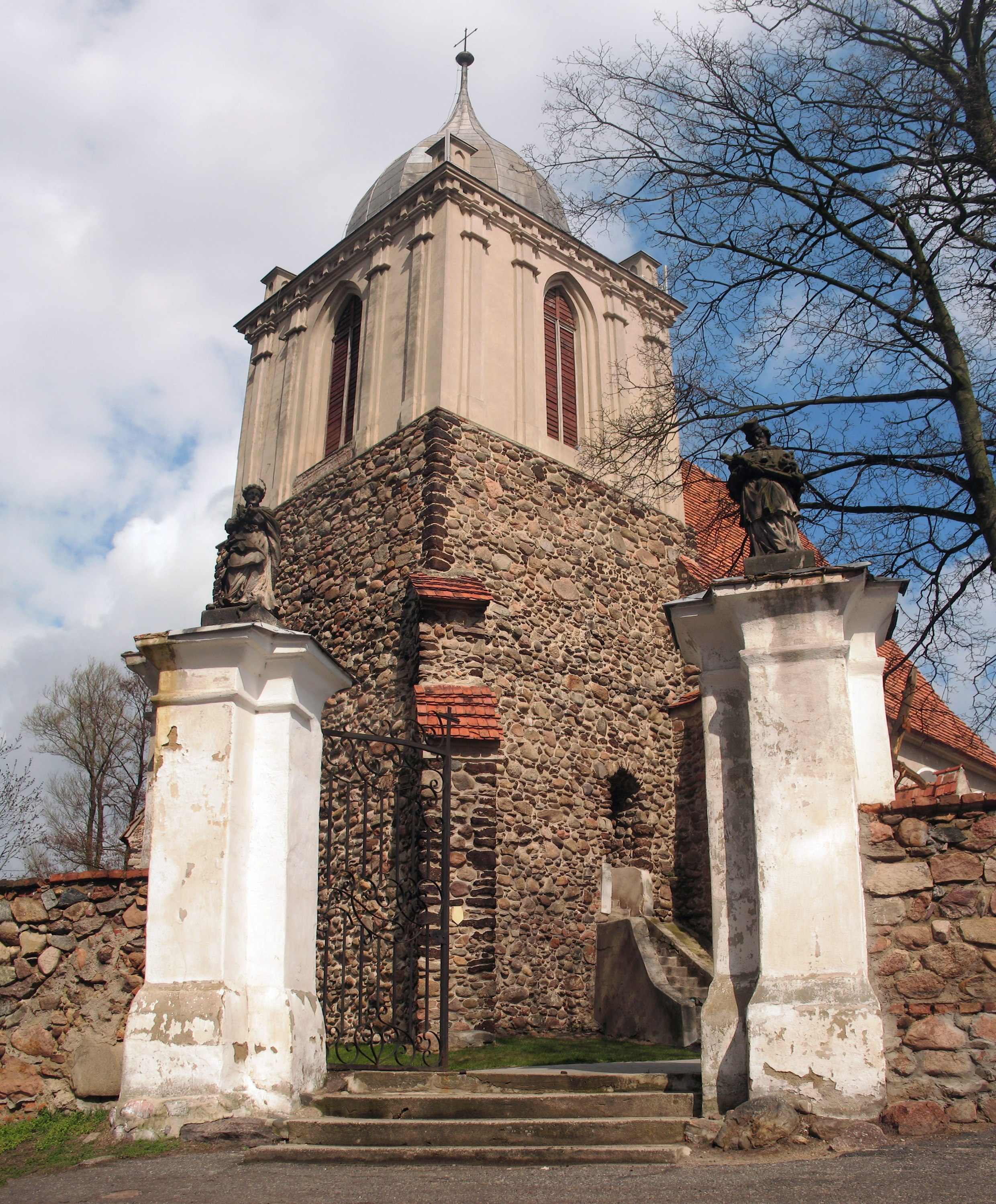 mediæval church in the village of Świdnica near Zielona Góra